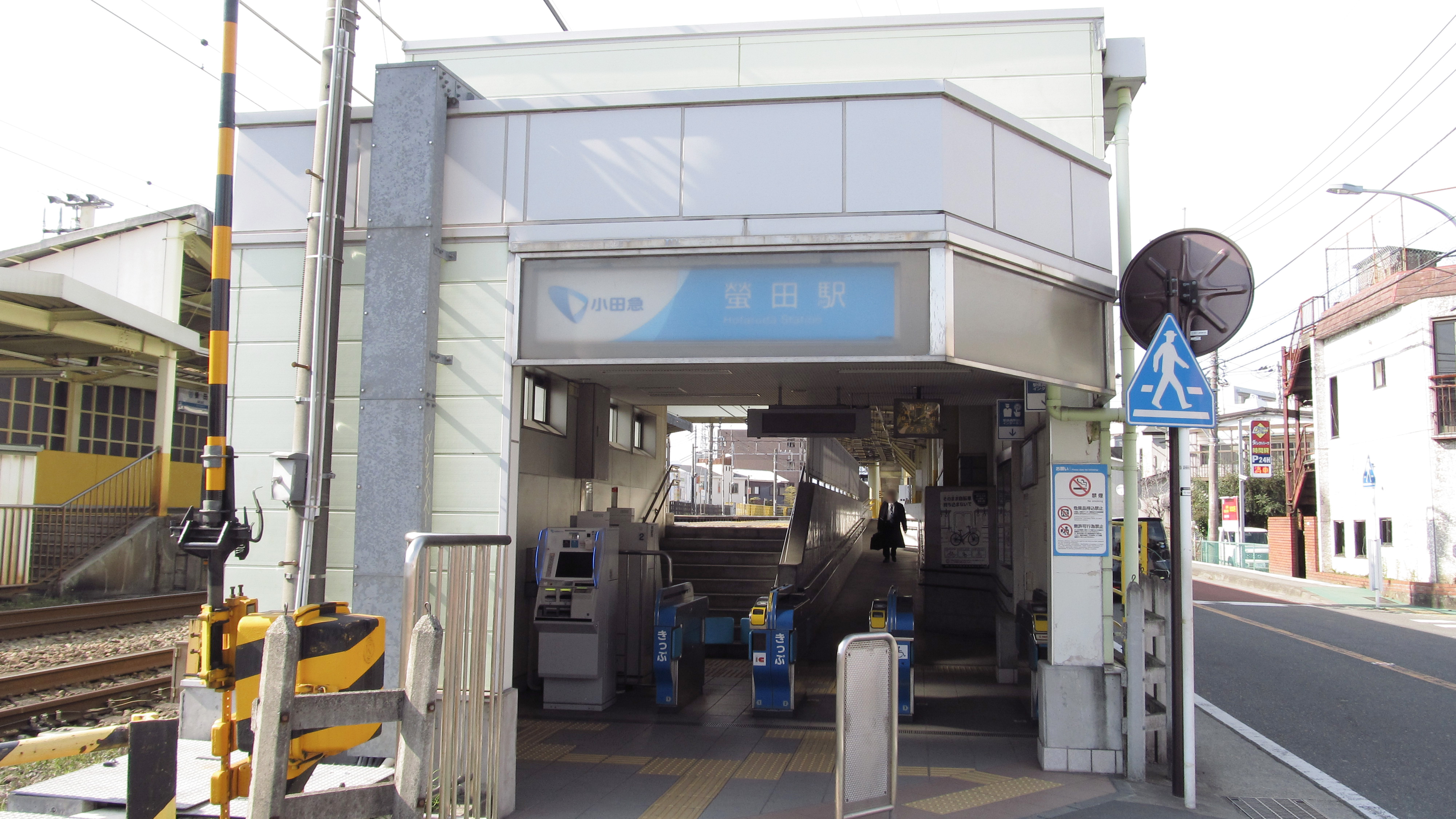 The east-side entrance of Hotaruda Station on the Odakyū Electric Railway Odawara Line in Odawara city, Kanagawa, Japan